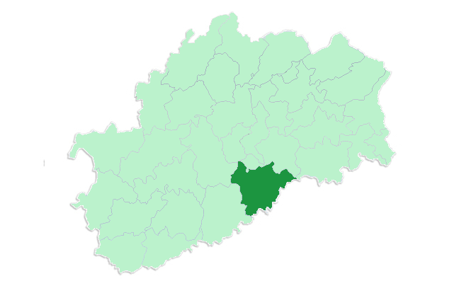 Canton of Montbozon